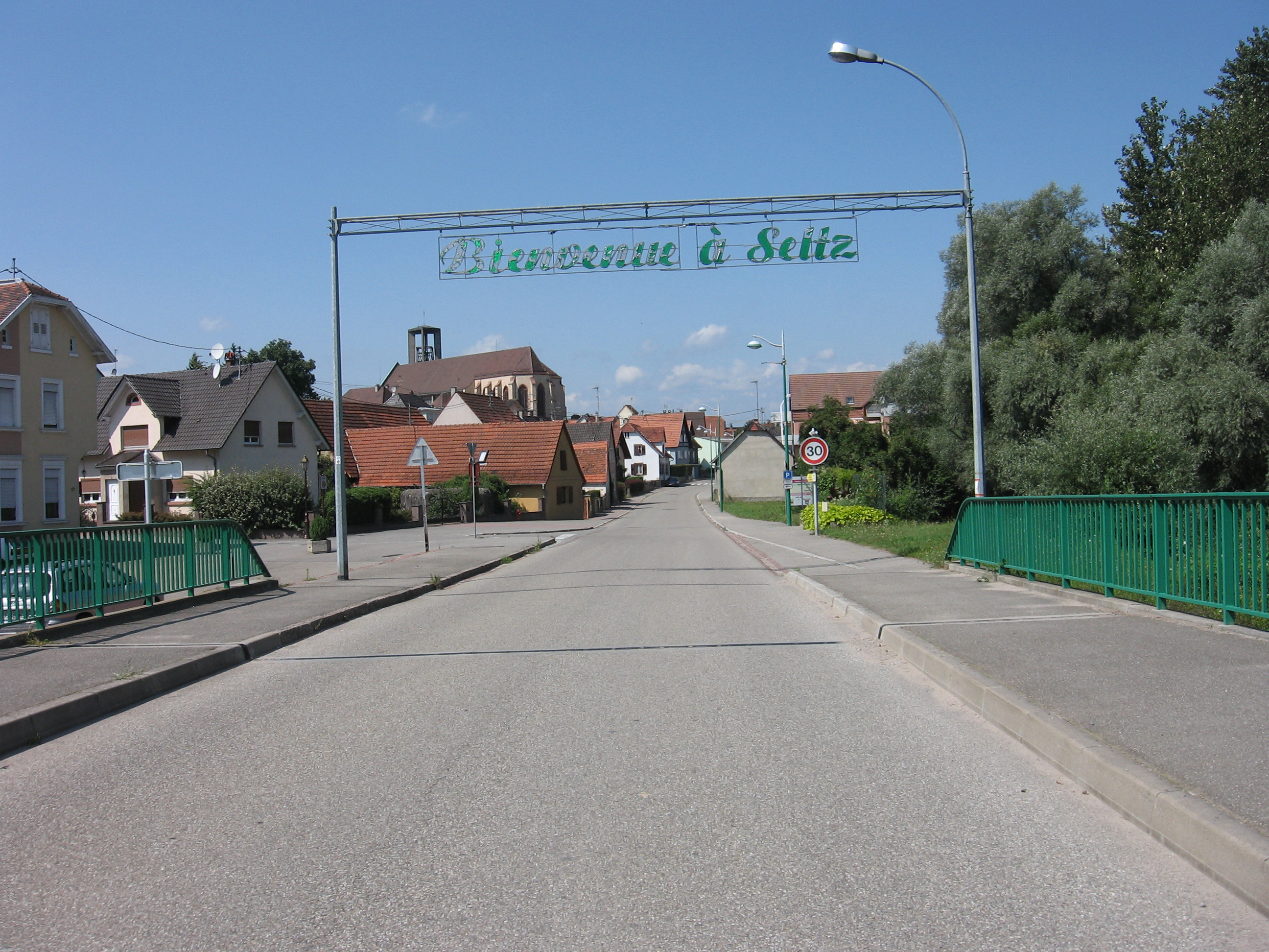 Seltz